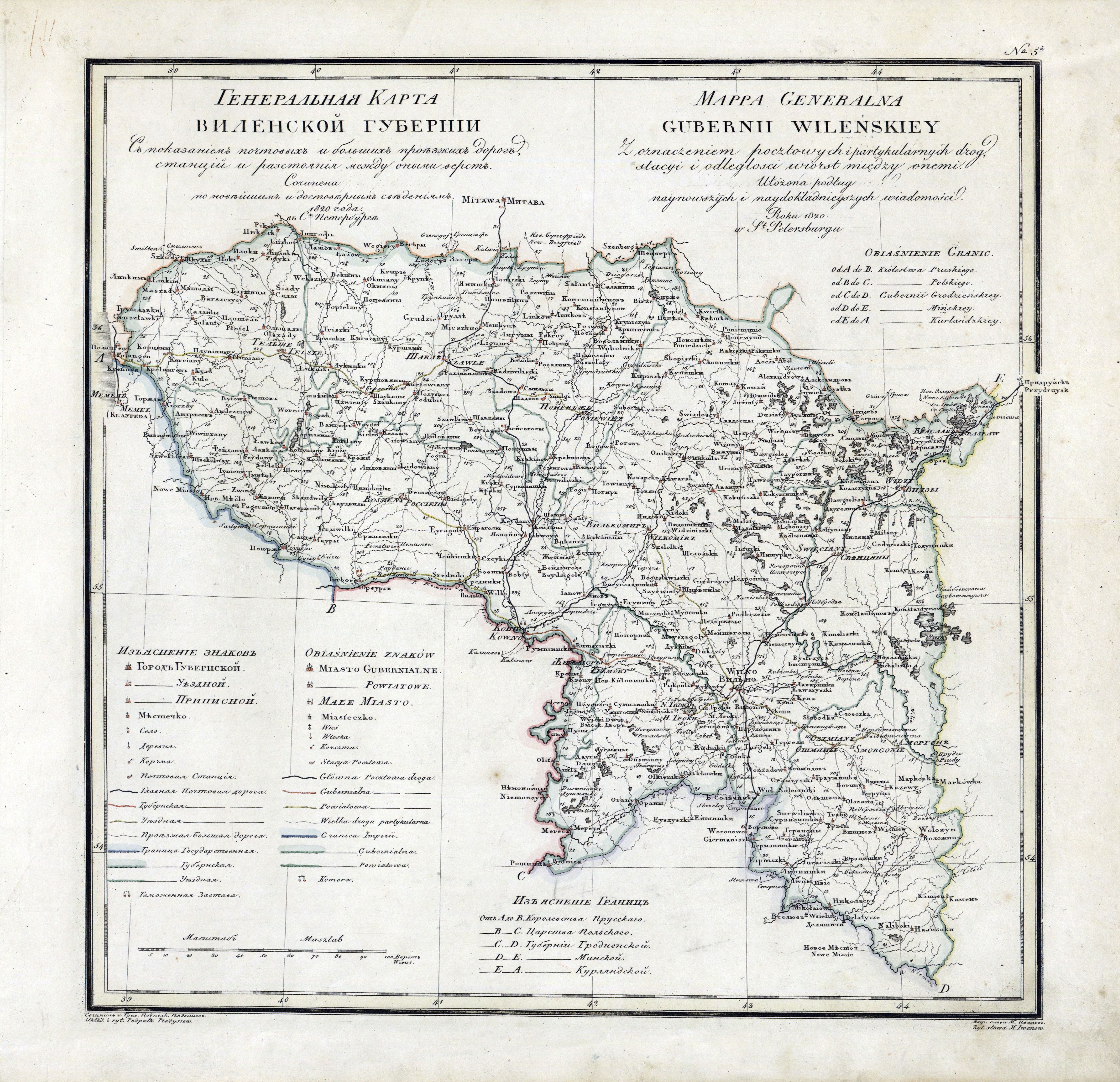 Geographic atlas of the Russian Empire, Kingdom of Poland and Grand Duchy of Finland is located in governorates in the Russian and French. 1821.